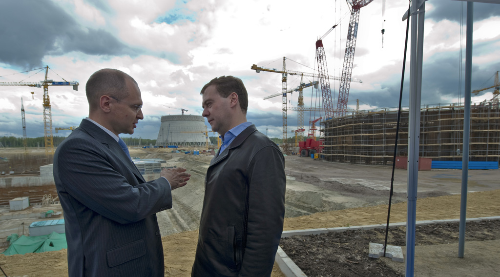 “Russian President Dmitry Medvedev attends Leningrad Nuclear Power Plant”. 29 May 2010. From right: Russian President Dmitry Medvedev, Head of the Federal Nuclear Power Agency Sergey Kirienko examined the construction site of LAES 2, the Leningrad Nuclear Power Plant extension.